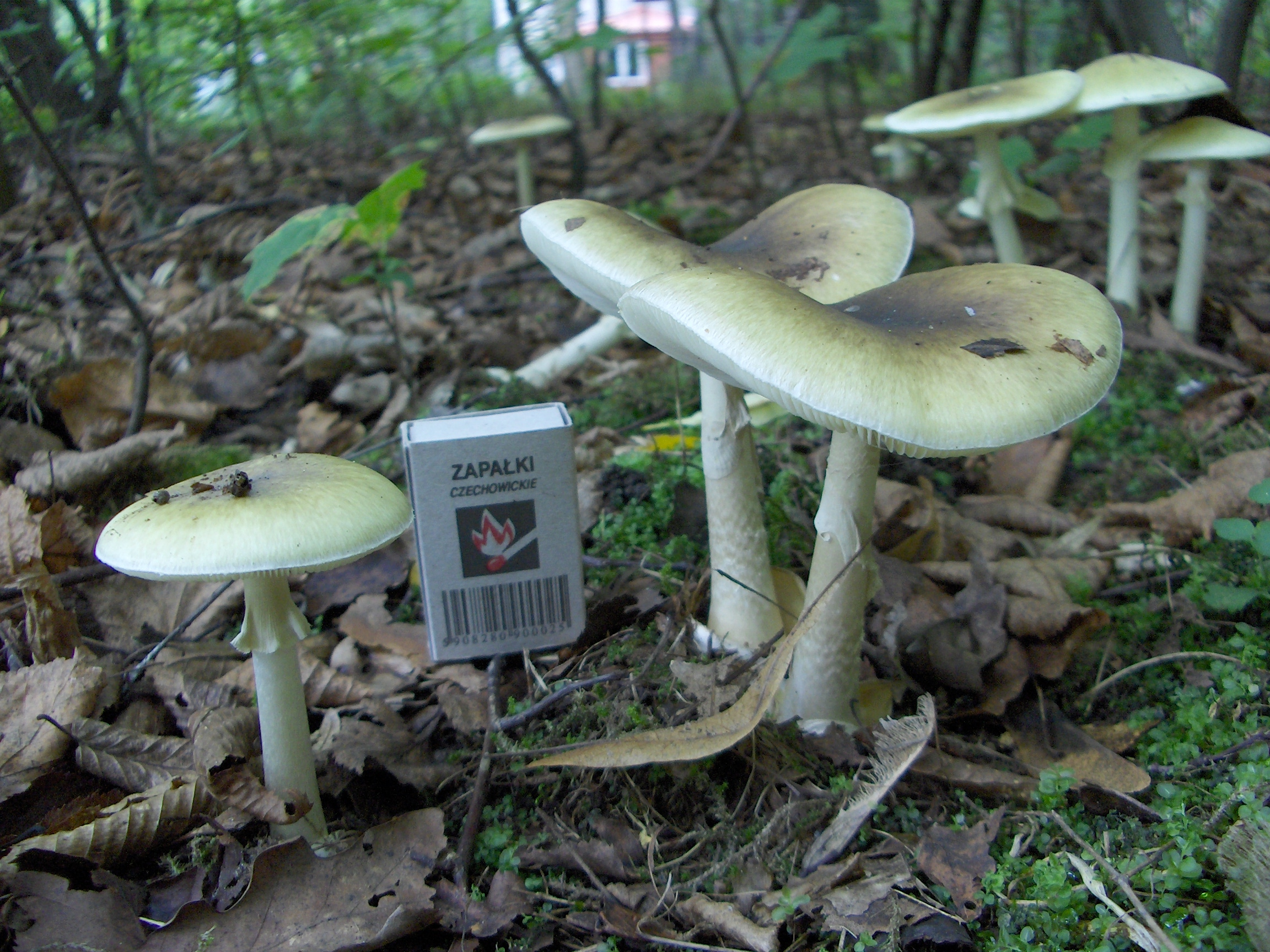 Death cap - two adult fungal fruiting bodies. Location: Europe, Poland, Mazovian Voivodship, Podkowa Leśna, broadleaf forest/garden. See also other pictures of the same subject.